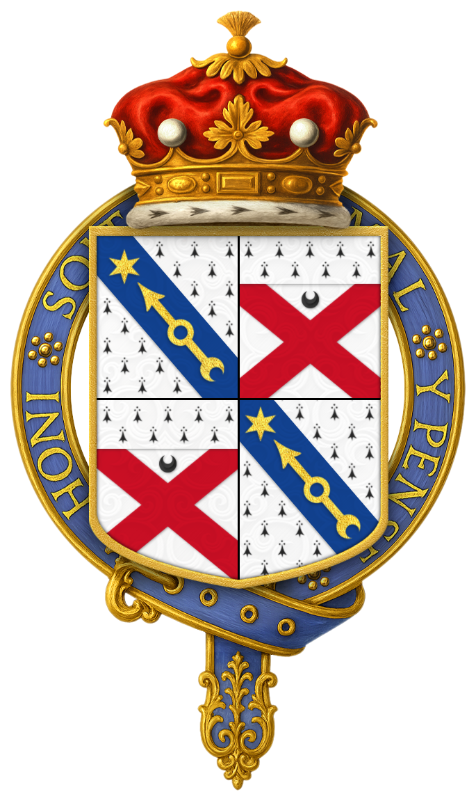 Shield of arms of Henry Petty-Fitzmaurice, 4th Marquess of Lansdowne, as displayed on his Order of the Garter stall plate in St. George's Chapel.